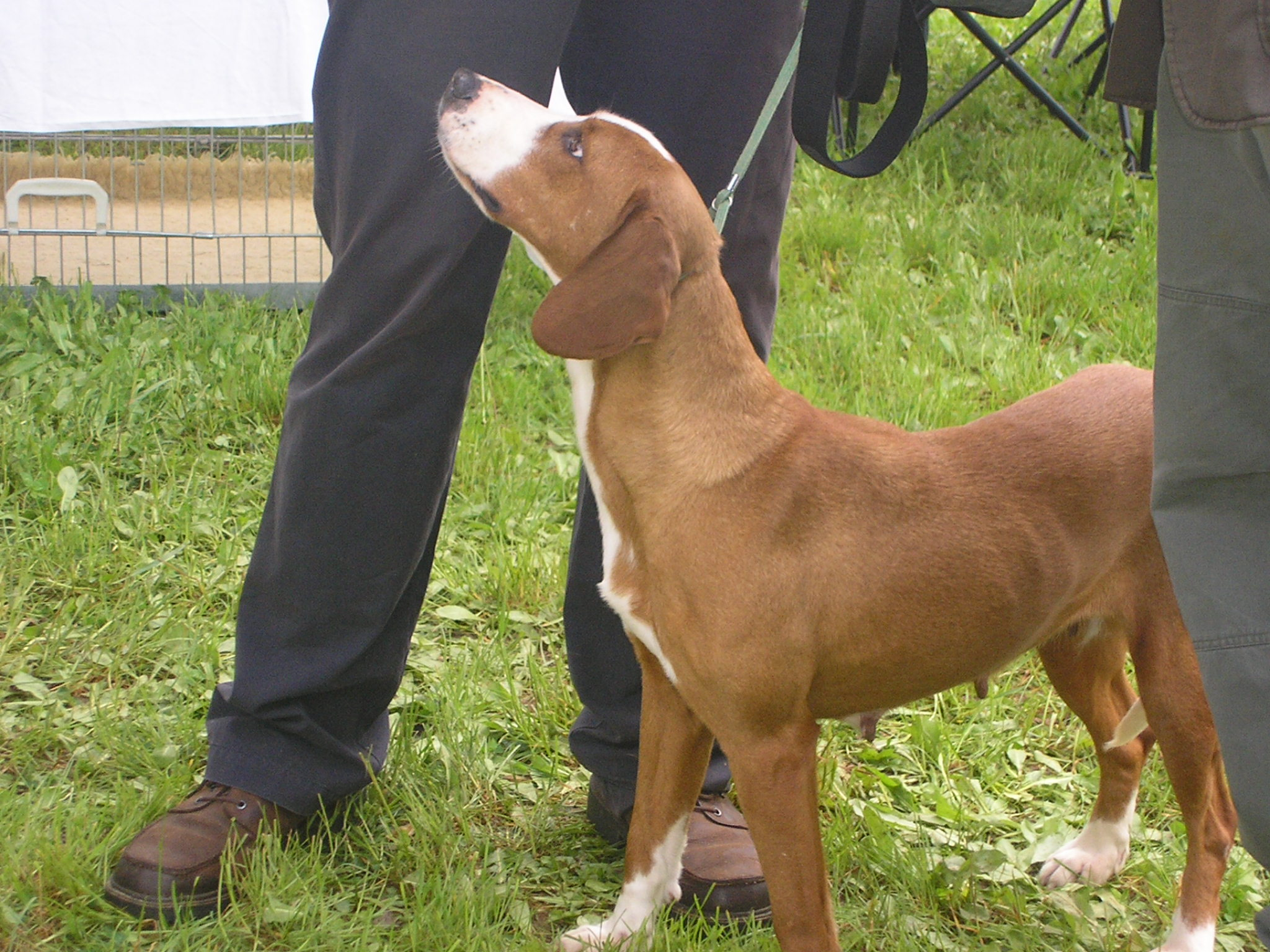 Posavac Hound at a dog show in Zadar, Croatia (CACIB 2006.)